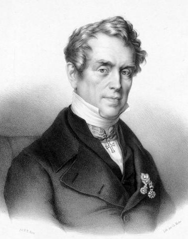 Austrian pianist and composer Sigismund von Neukomm (1778-1858).